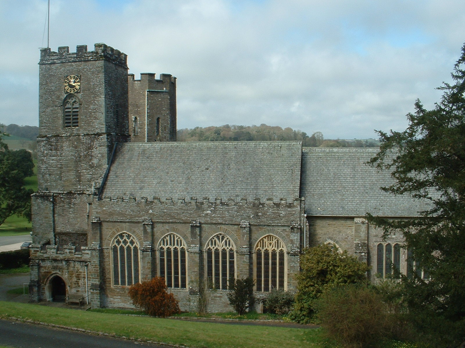 St German's Priory, Cornwall, seen from the south